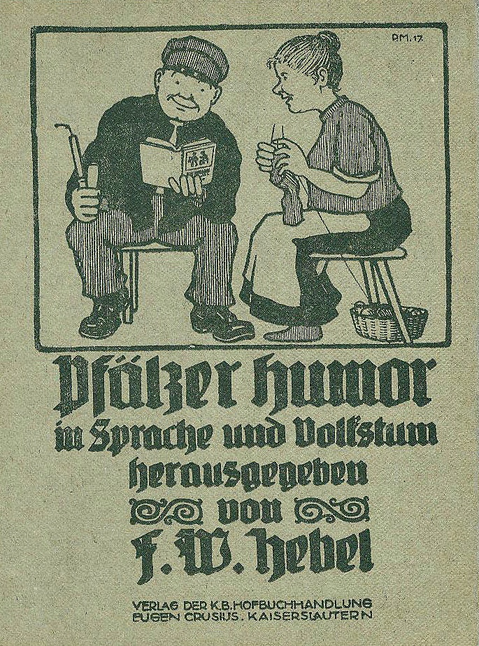 Friedrich Wilhelm Hebel, Buchcover Humoreskensammlung "Pfälzer Humor" 1917